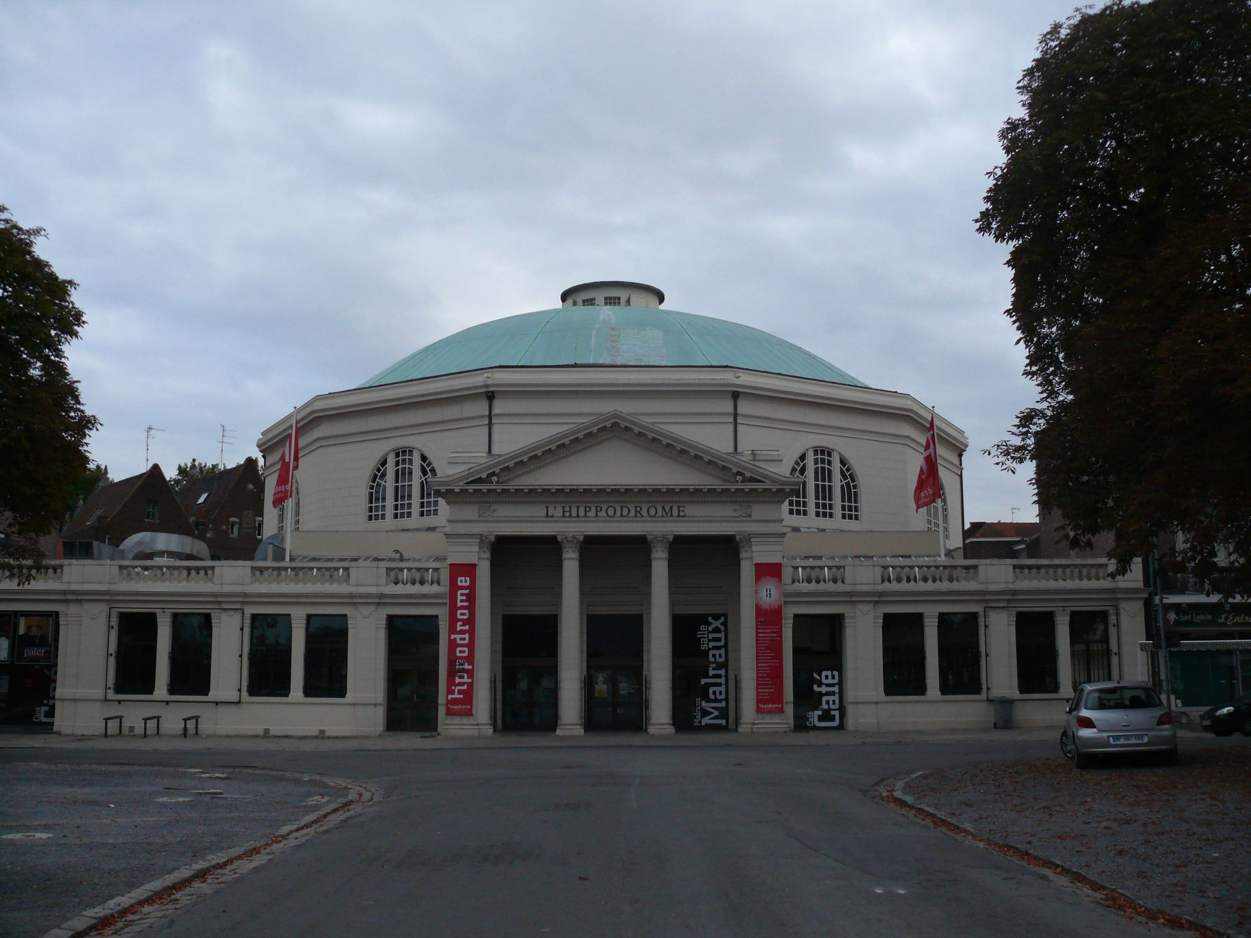 The hippodrome in Douai (Nord, France).